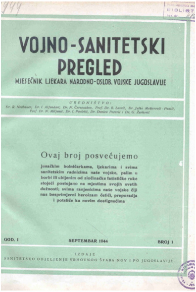 Cover of Scientific journal Vojnosanitetski pregled, 1944, Serbia